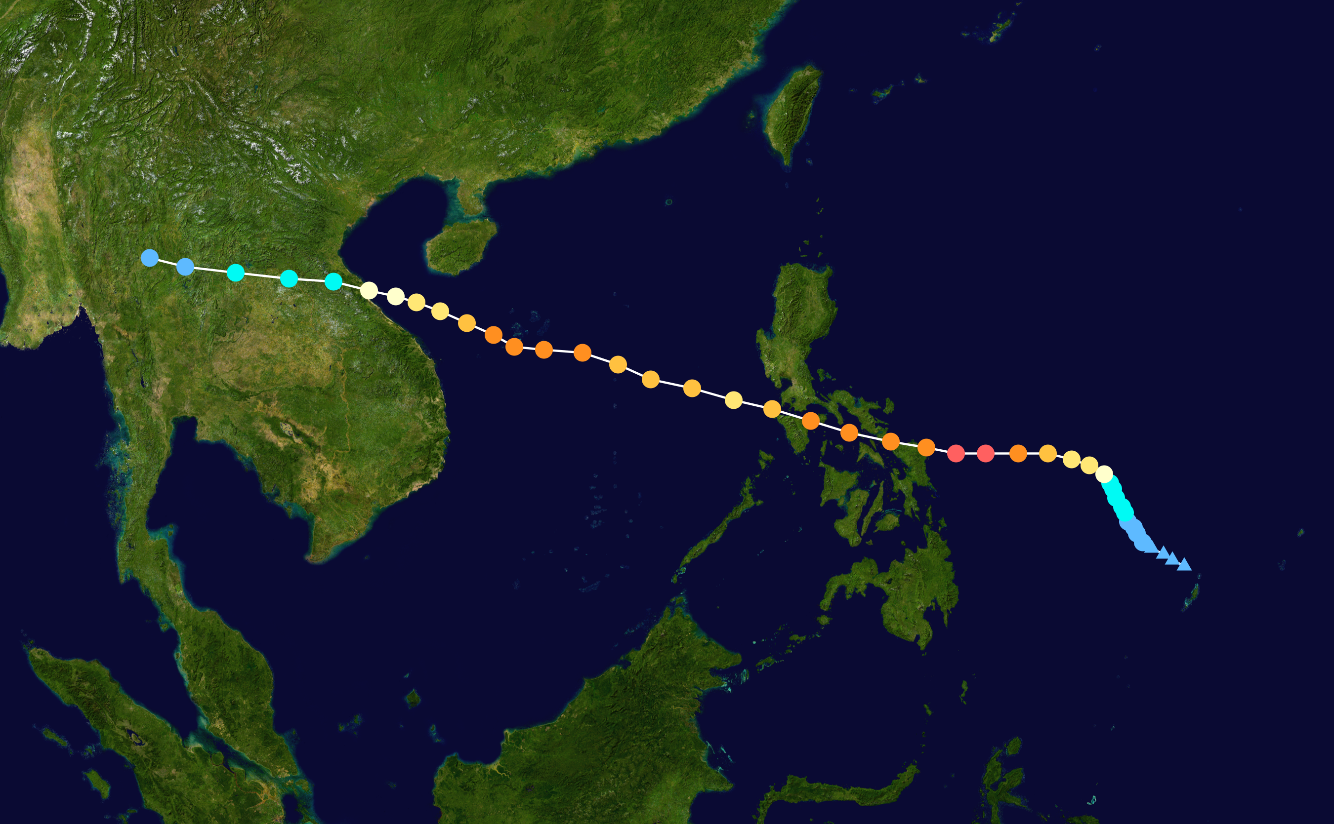 Typhoon Betty 1987 track. Uses the color scheme from the Saffir-Simpson Hurricane Scale.